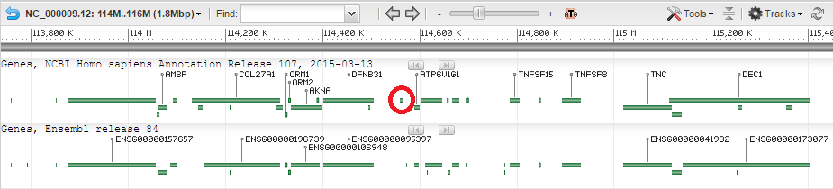 C9ORF91 Gene Neighborhood: Gene is locatrd on 9q32, neighboring DFNB31 and ATP6V1G1. C9ORF91 is Labeled with a red cirlce surronding it